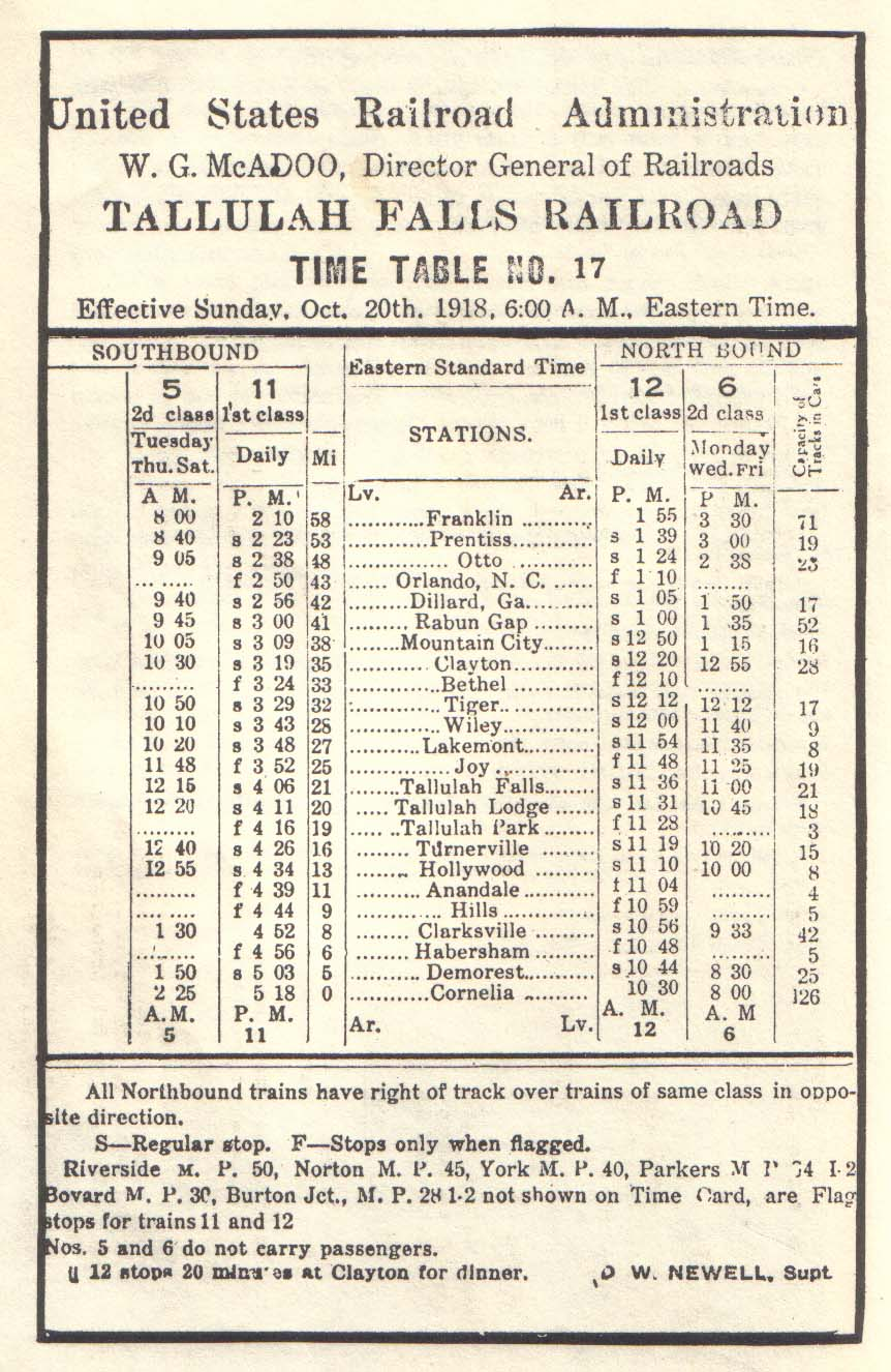 Time table no. 17 for the Tallulah Falls Railroad.